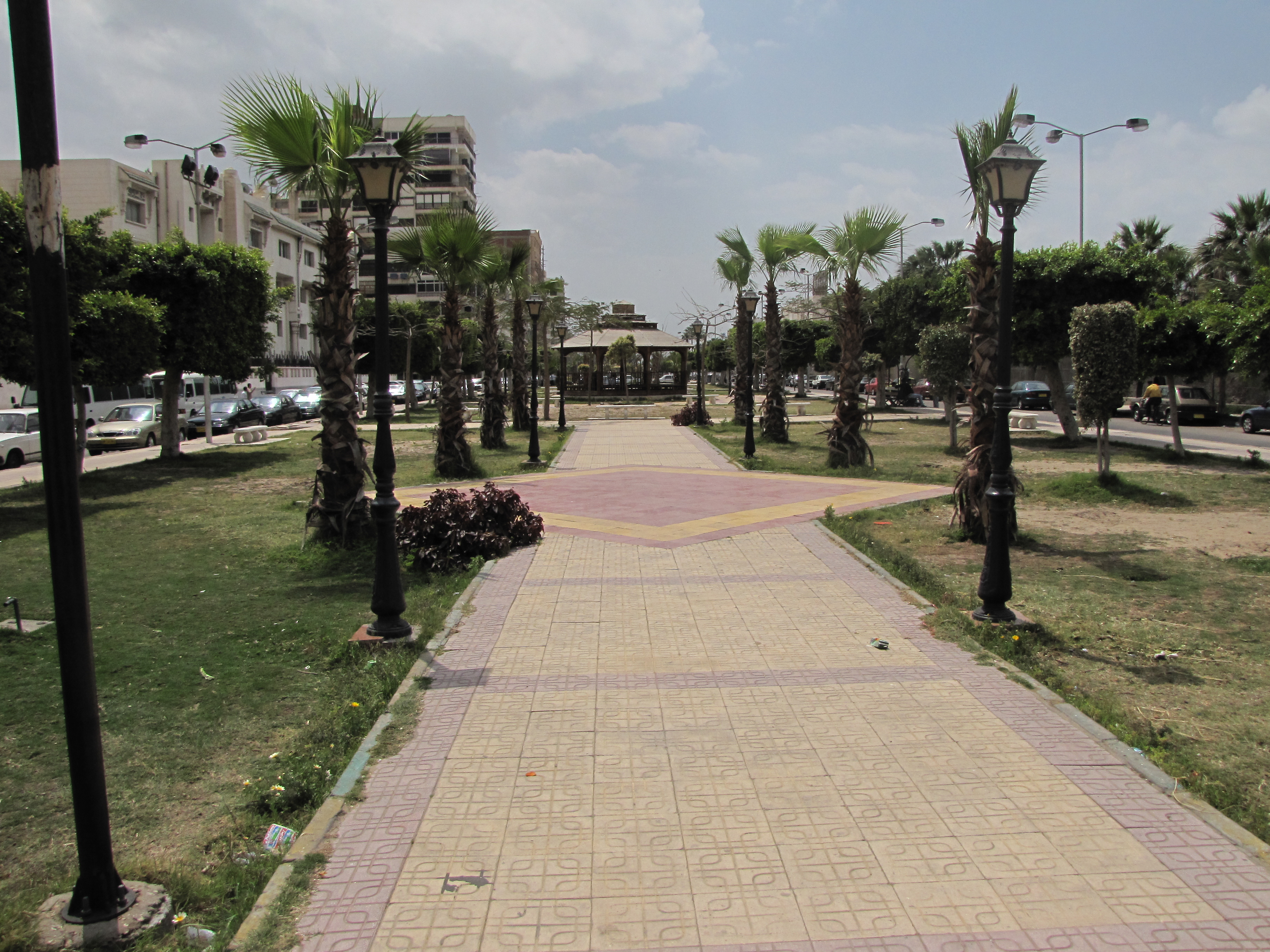 portfouad